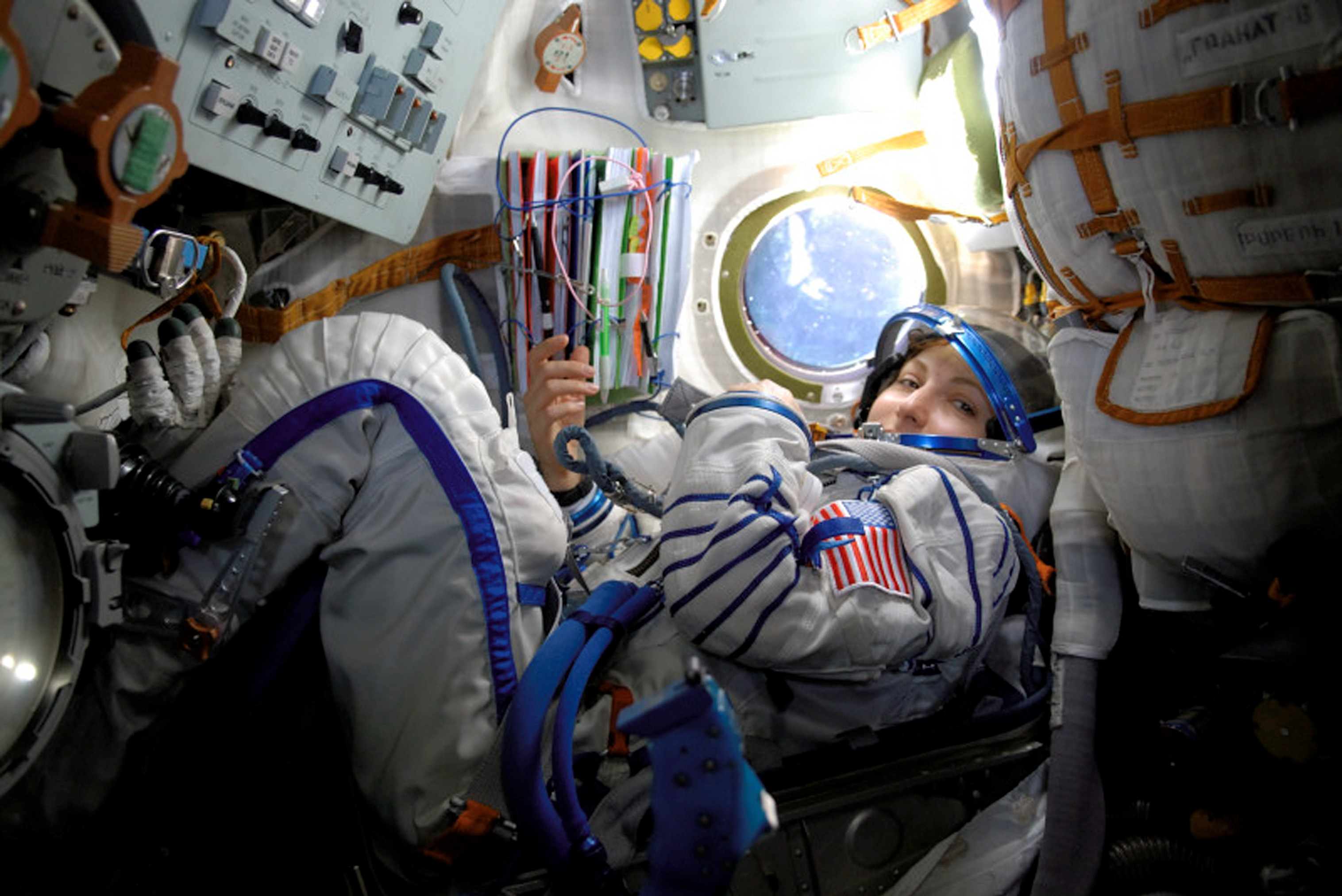 Spaceflight participant Anousheh Ansari photographed in the Soyuz TMA-9 spacecraft in-route to the International Space Station with the Expedition 14 crewmembers. Ansari is wearing a Russian Sokol launch and entry suit.